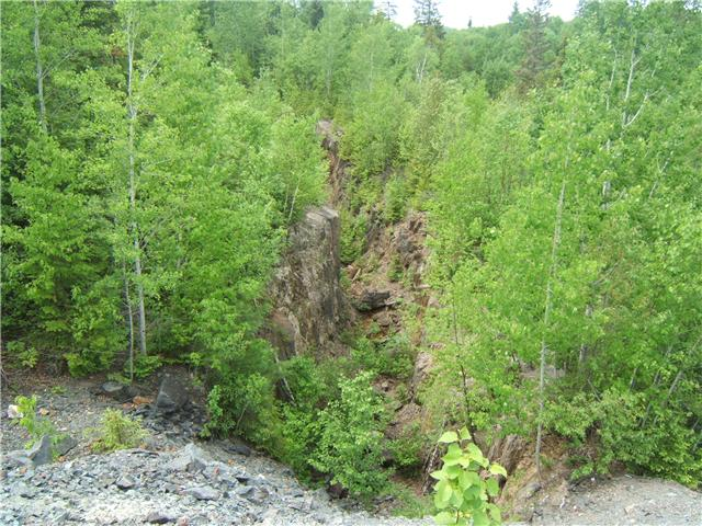 A forested trench at Beanland Mine in Temagami, Ontario.